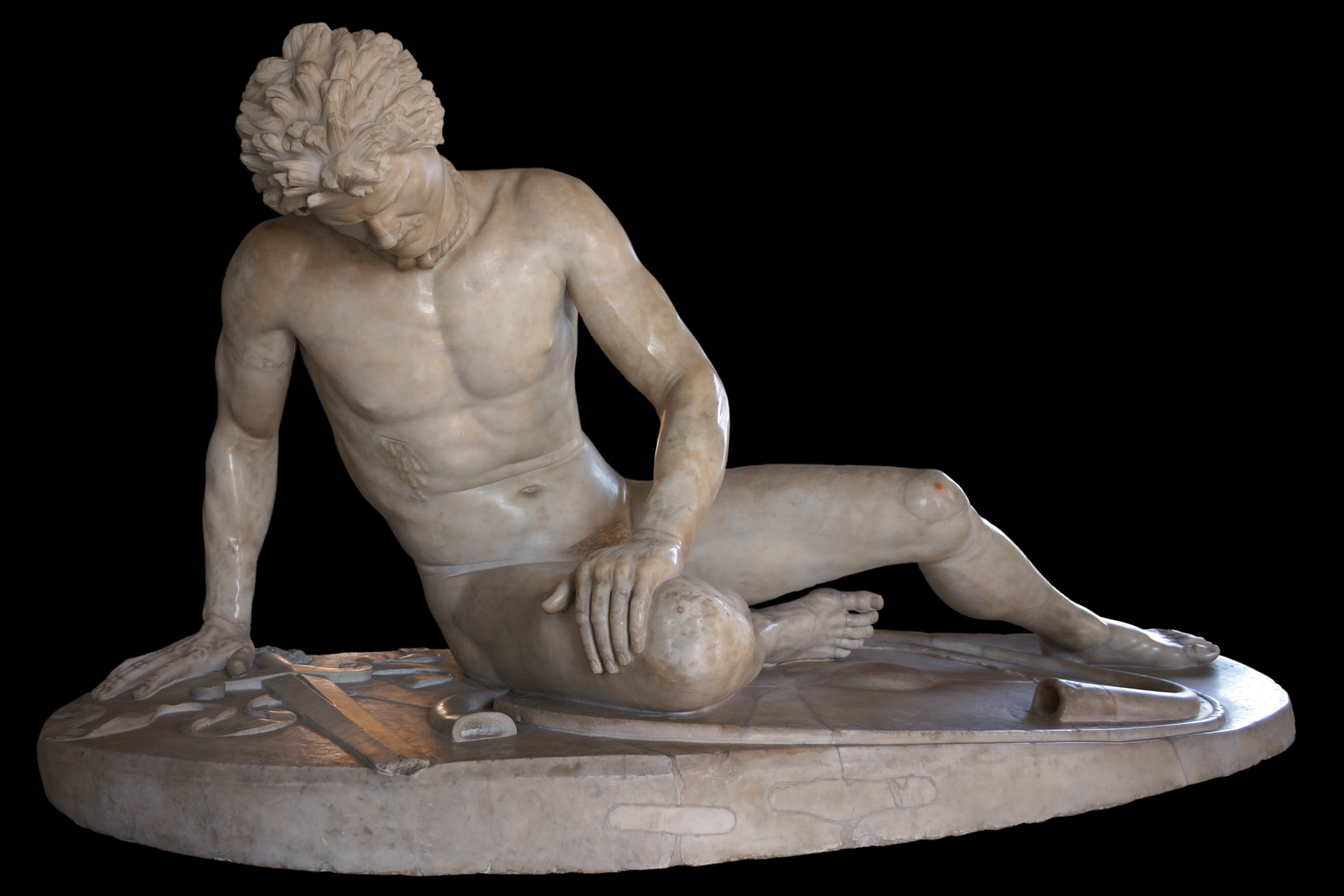 Sculpture of the Dying Gaul. Picture taken at the Capitoline Museums.